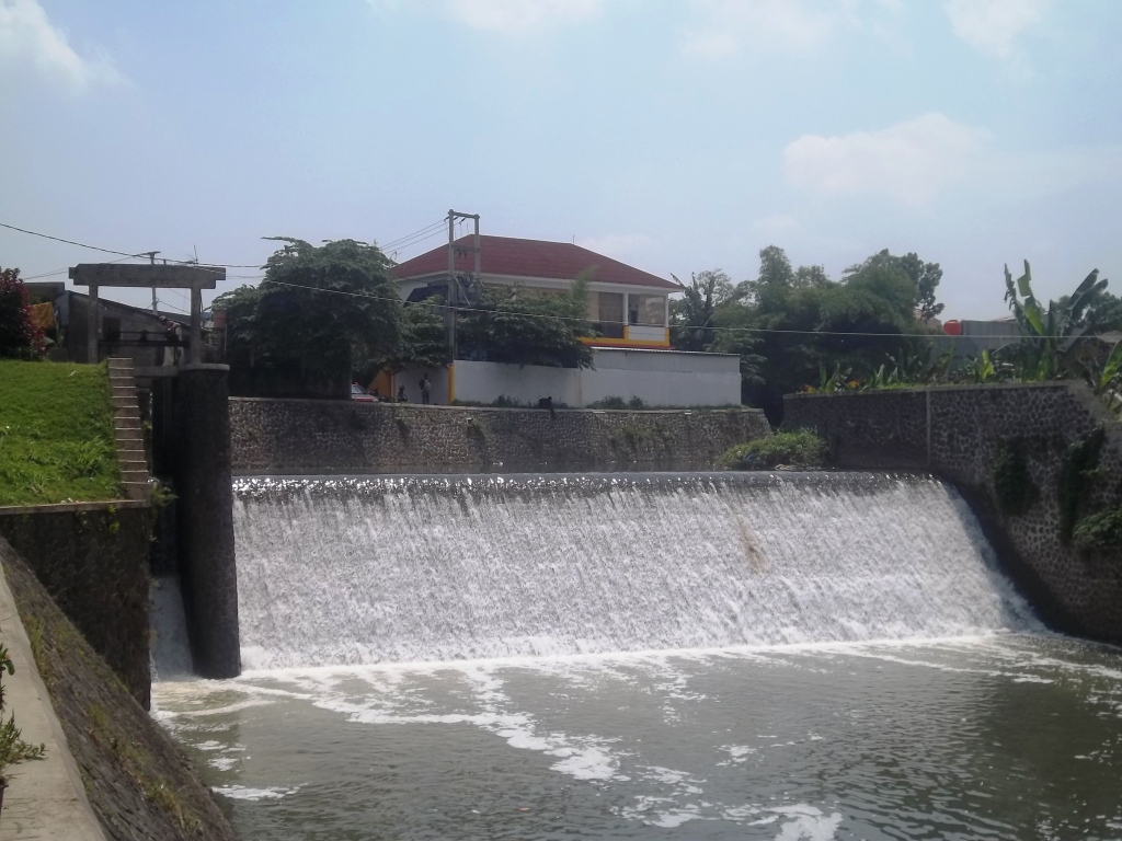 Weir in Bogor, West Java, Indonesia. The water is raised to feed irrigation channel.